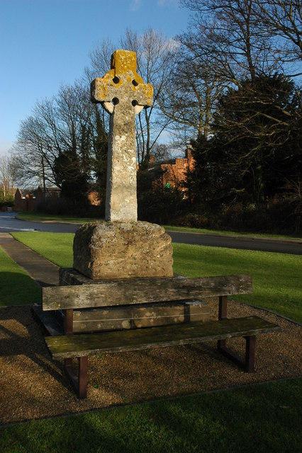 Apperley War Memorial Apperley's War Memorial stands on a triangular shaped village green next to the church.